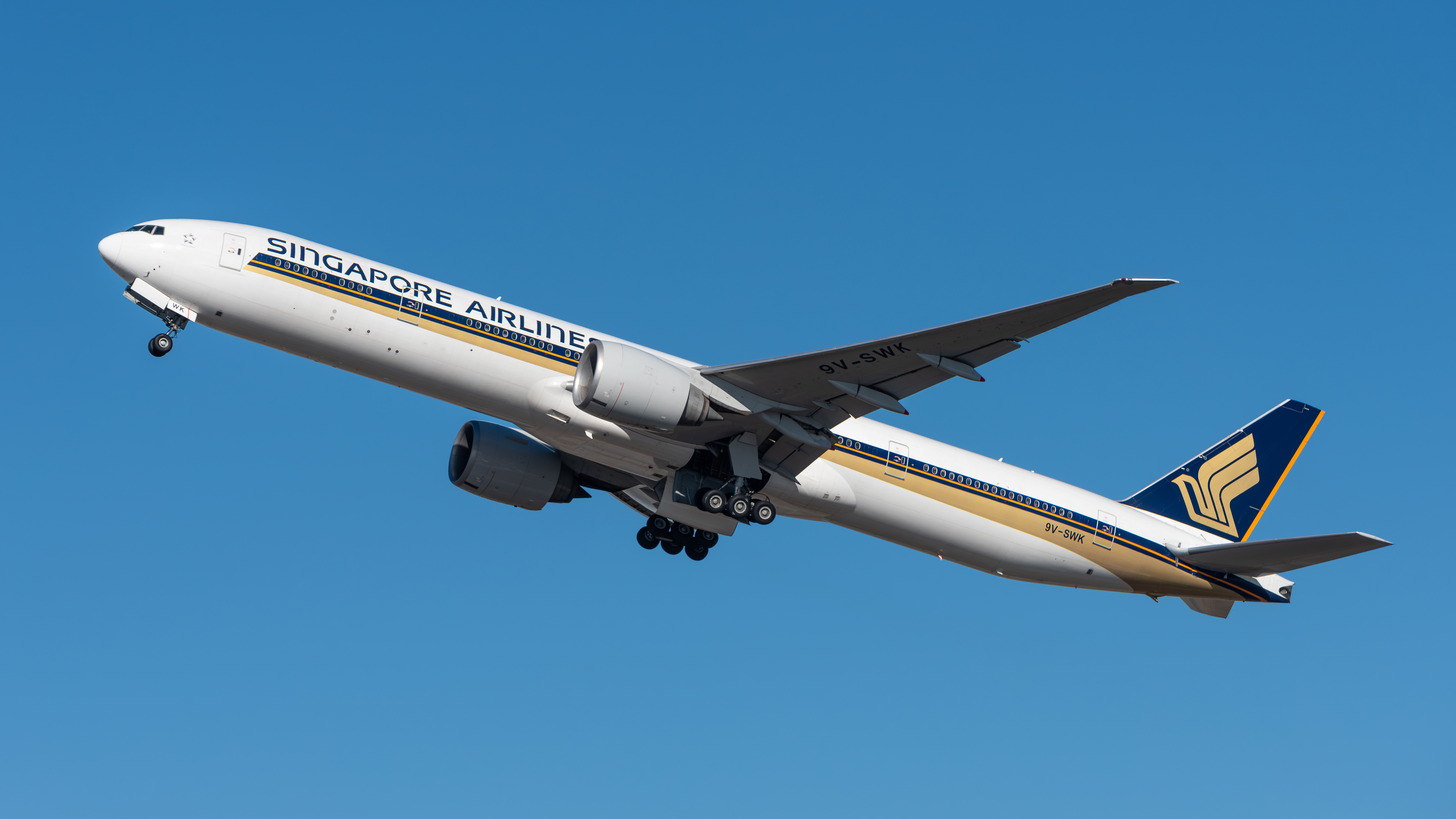 Singapore Airlines Boeing 777-312/ER (reg. 9V-SWK, msn 34576/644) at Munich Airport (IATA: MUC; ICAO: EDDM).